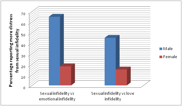 In general, men tend to see sexual infidelity as more distressing than emotional jealousy in comparison to women.